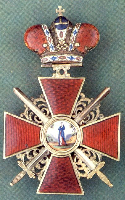 Order of St. Anna, 2nd degree